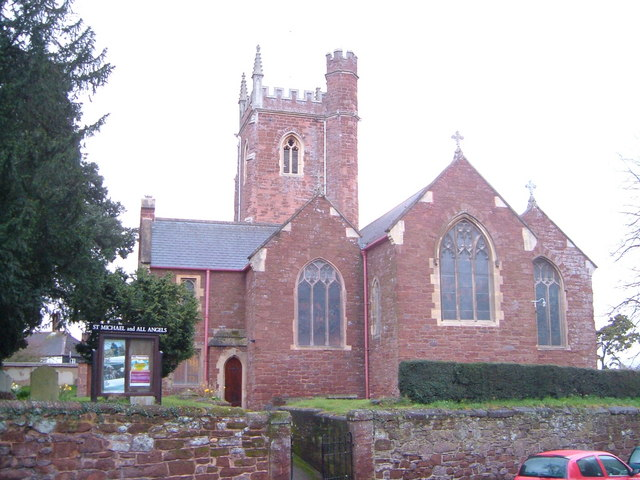 St Michael's Church, Alphington. Red sandstone church, from the east. "Quite an ambitious building", say Cherry and Pevsner.